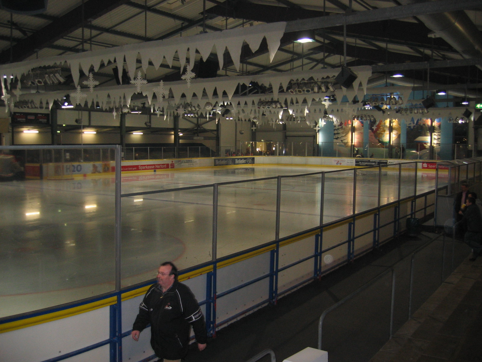 Hockey stadium Im kleinen Felde in town of Herford, District of Herford, North Rhine-Westphalia, Germany.